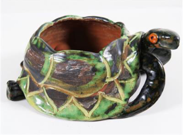 Wittmann Schildkröte 1930